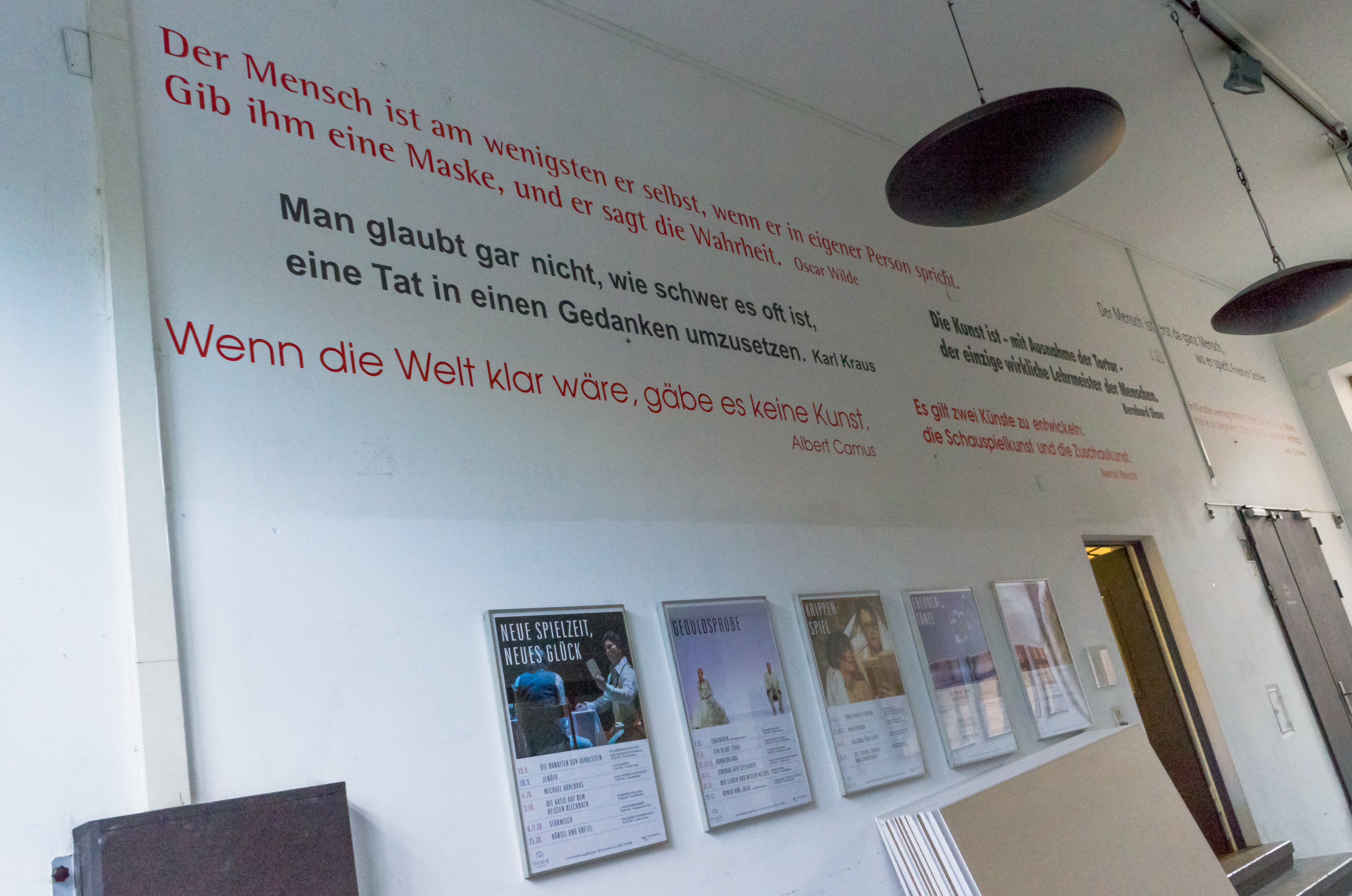 Quotes from Oscar Wilde, Friedrich Schiller, Karl Kraus, Bernhard Shaw, Albert Camus, Bertholt Brecht and Jean Cacteau in the hallway behind the main entrance door to the Hoffmannkeller, a literal underground theatre in Augsburg. A cellar once used by the wine store Hoffmann.